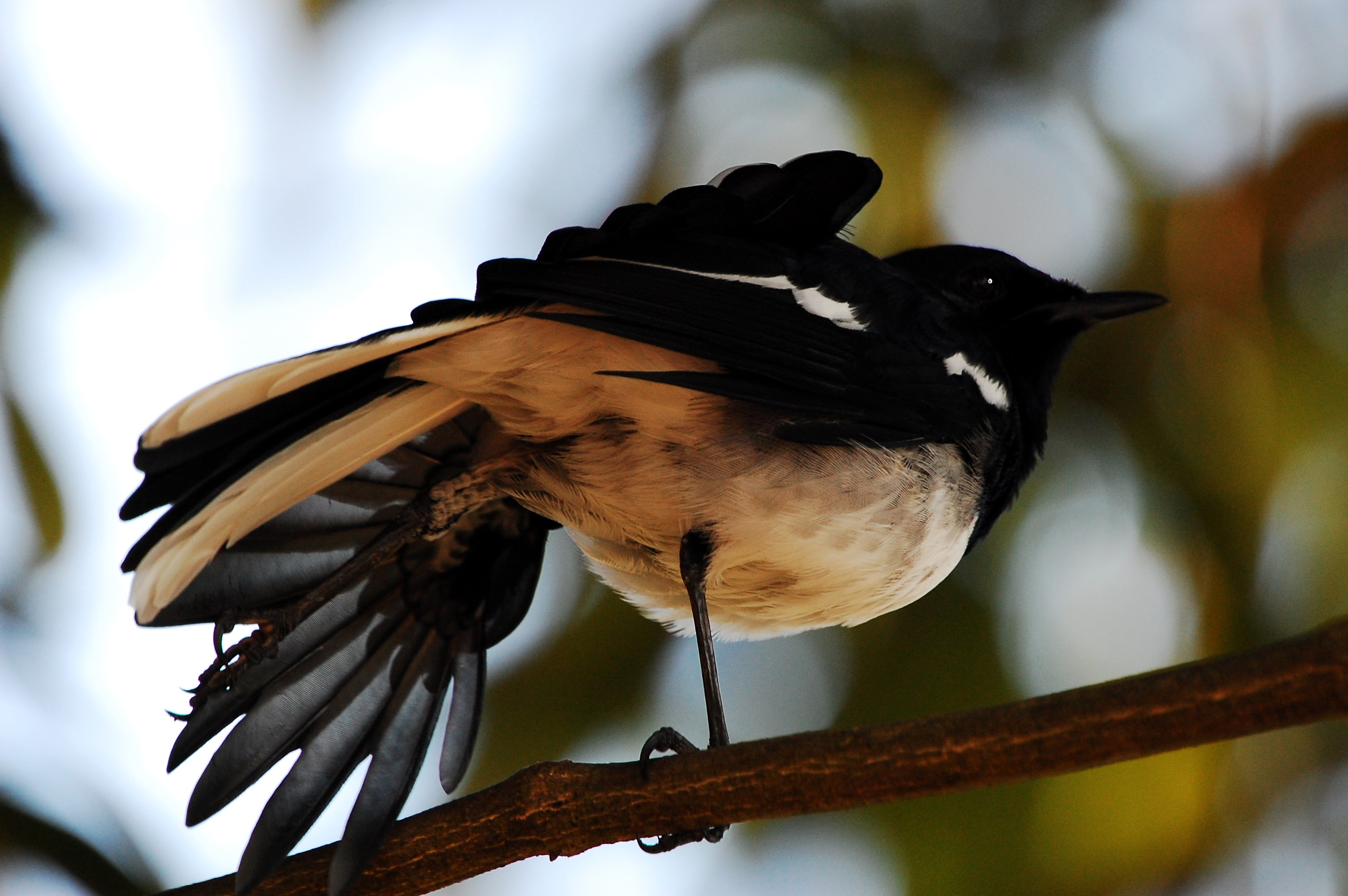 Magpie-robin (Oriental) (Genus Copsychus or Trichixos) doing some Morning yoga.